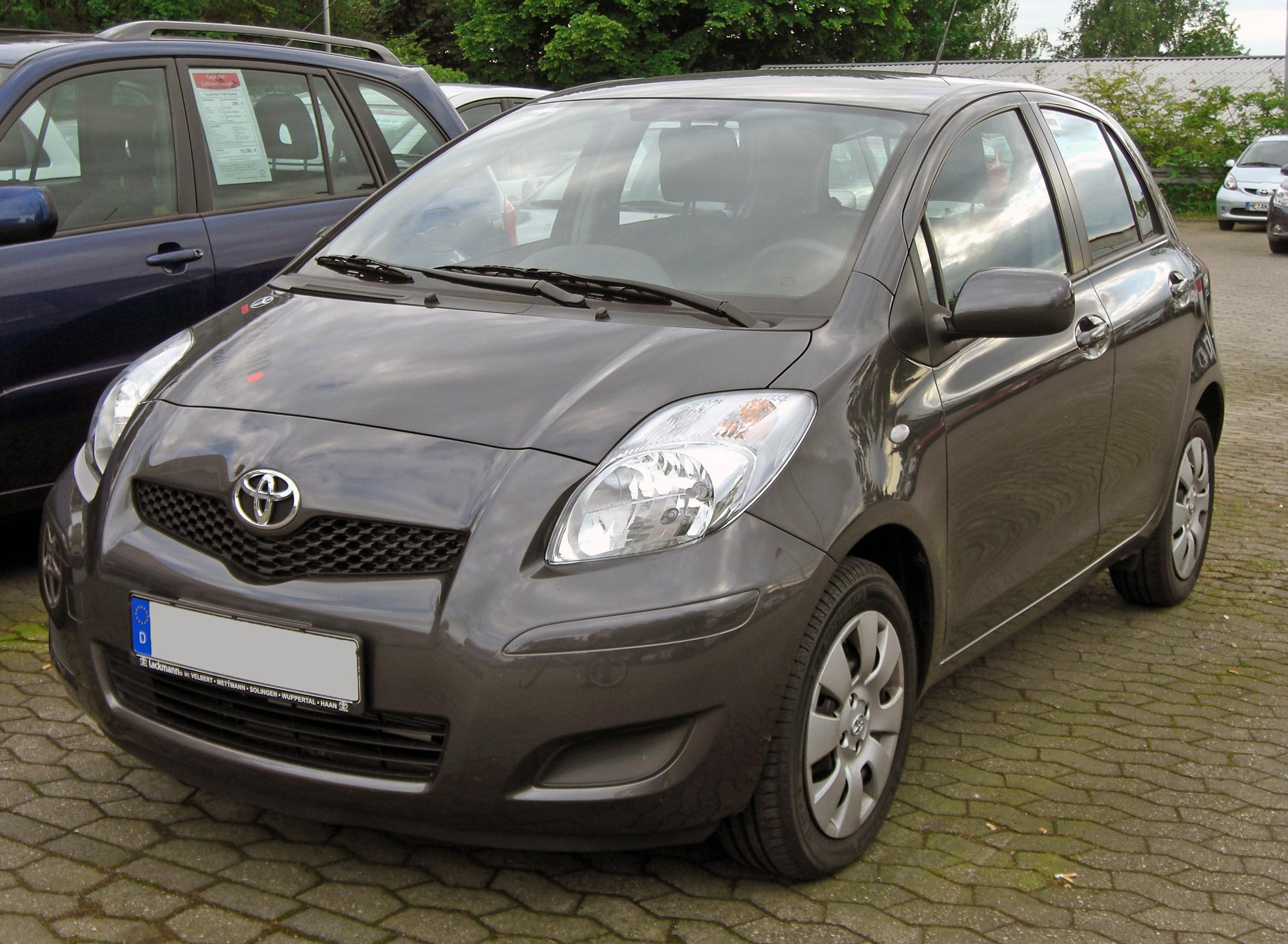 Toyota Yaris II Facelift